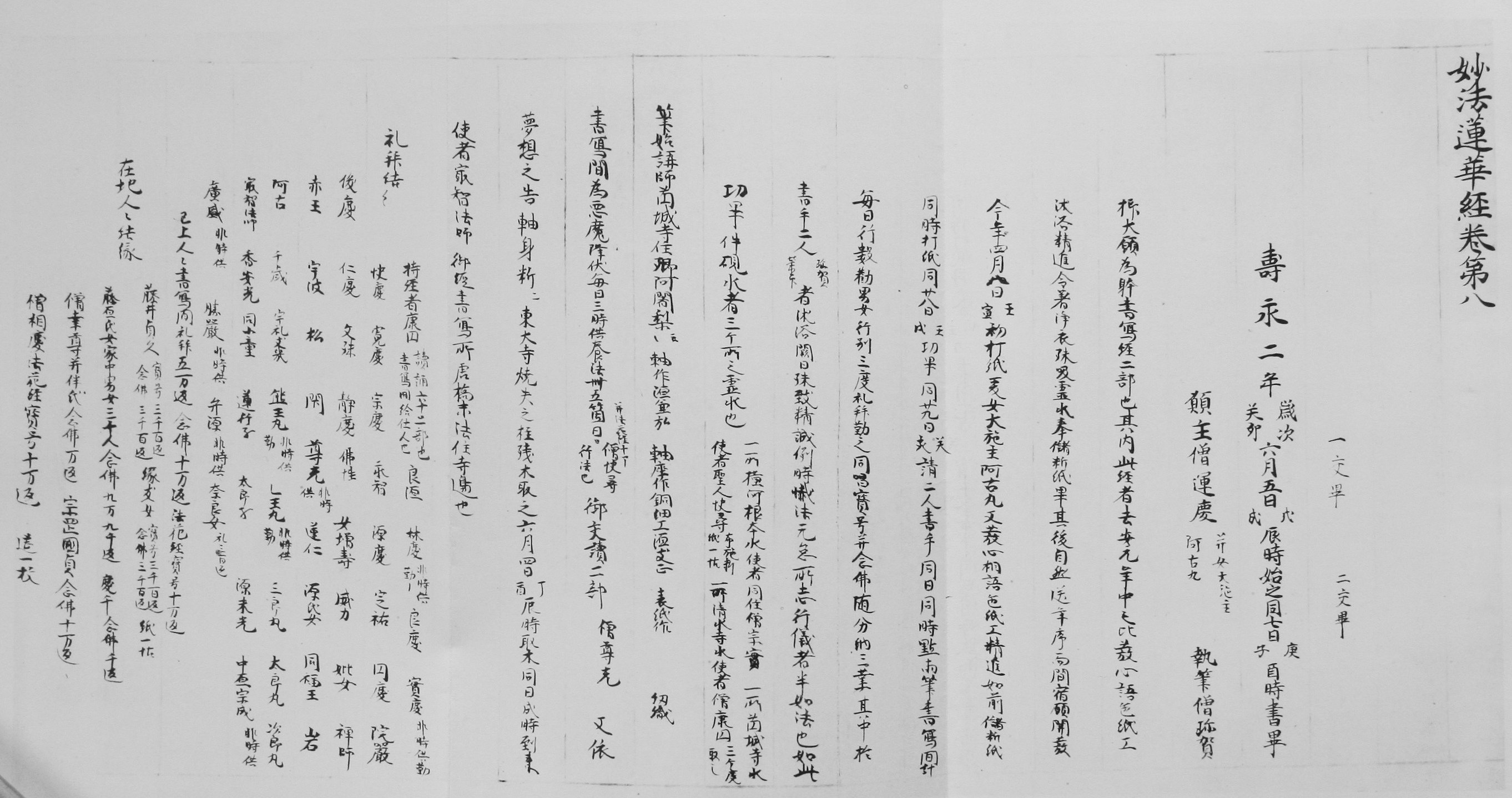 Lotus Sutra vol8 last part, noted by dononors(UNKEI ey al) ACE1183